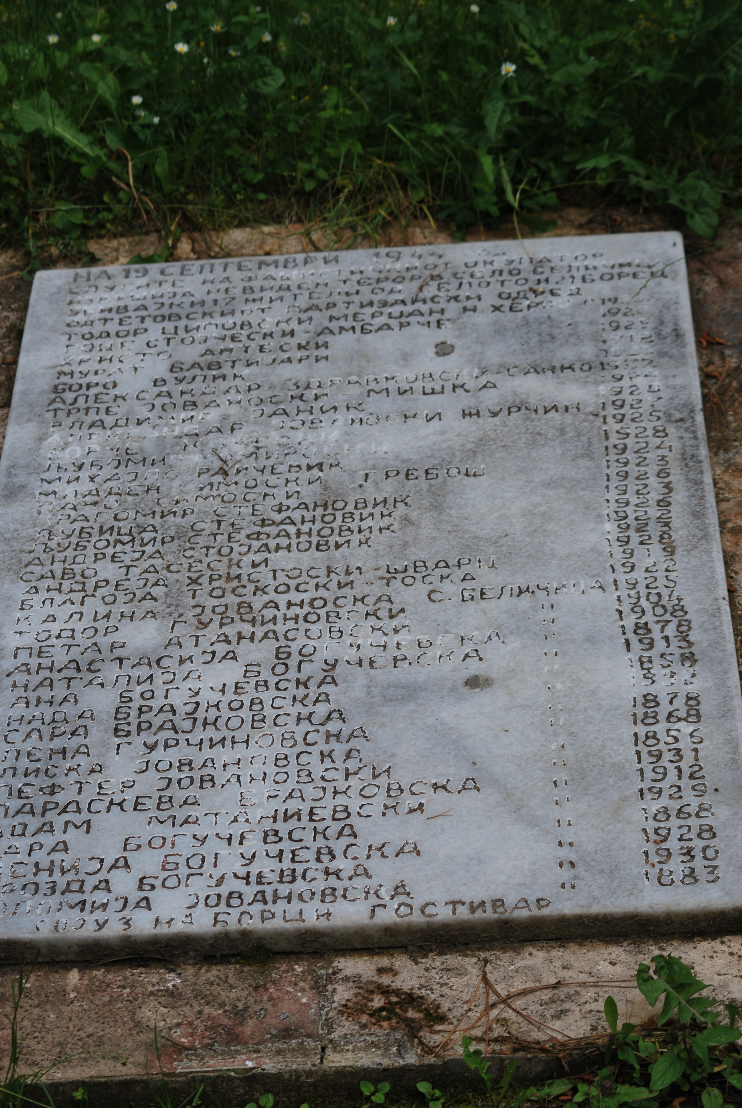 ITrnica, Macedonia